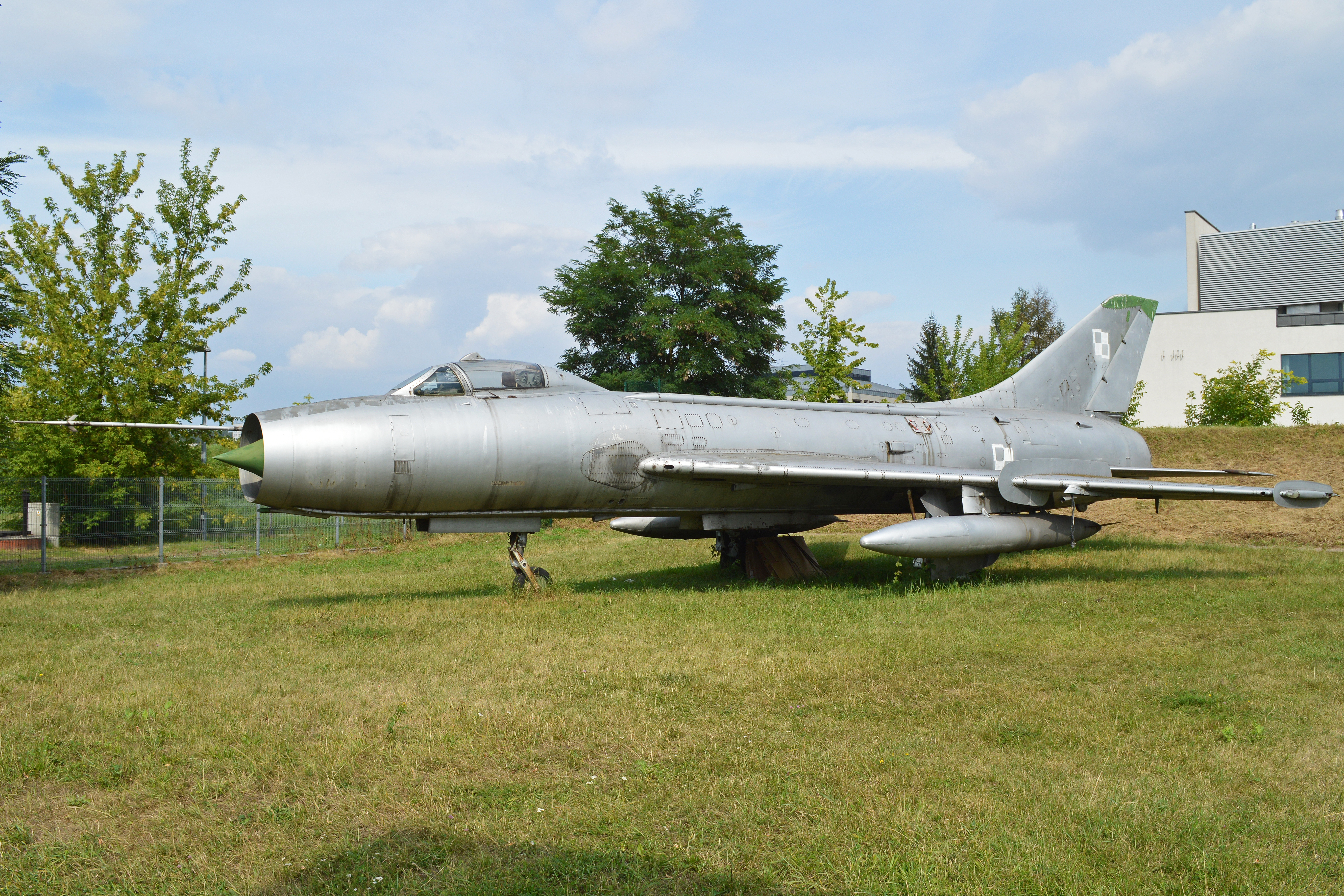 c/n 5301. The types NATO codename was ‘Fitter-A’ On outside display at the Muzeum Lotnictwa Polskiego. Krakow, Poland. 23-8-2013